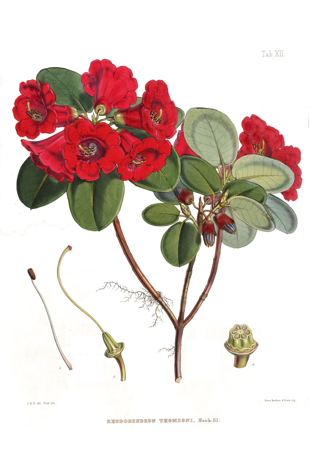 Illustration of Rhododendron thomsonii as scanned from the book Rhododendrons of the Sikkim-Himalaya published in 1849-1851